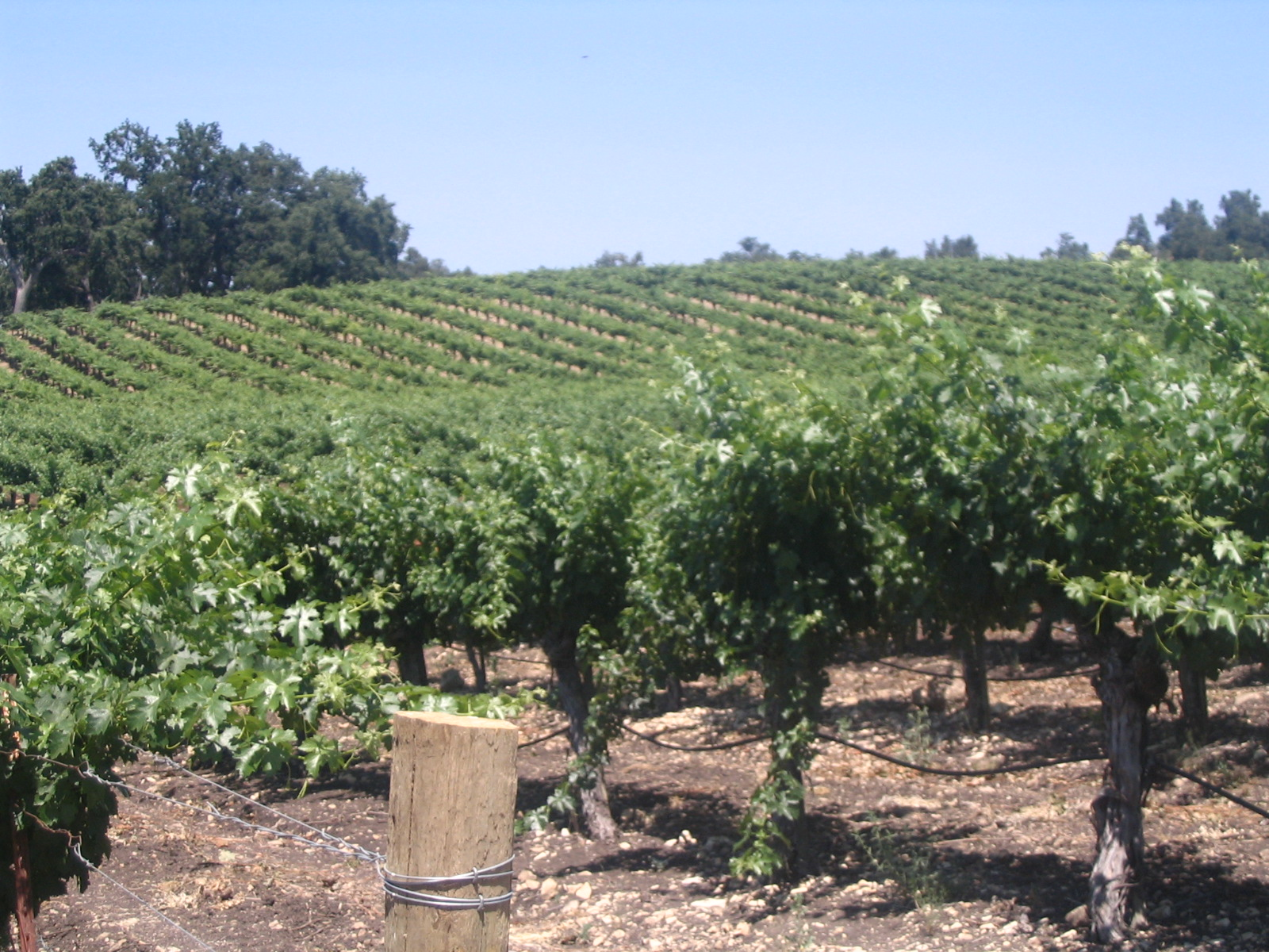 Part of the Justin Winery vineyard in Paso Robles, California